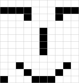 An increased portion of face in bitmap